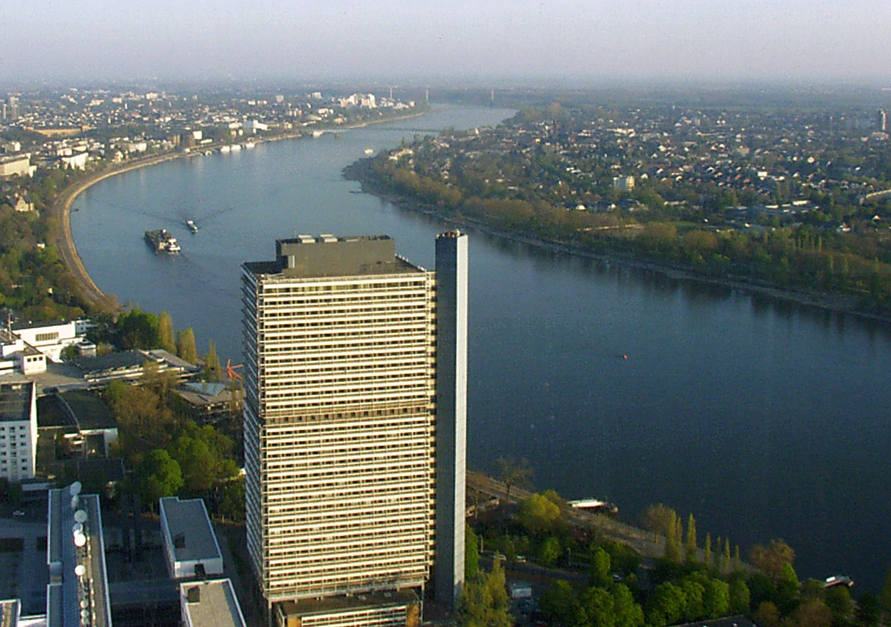 Aerial view (from Post Tower) of the former members of parliament building Langer Eugen, now a part of the UN Campus in Bonn.